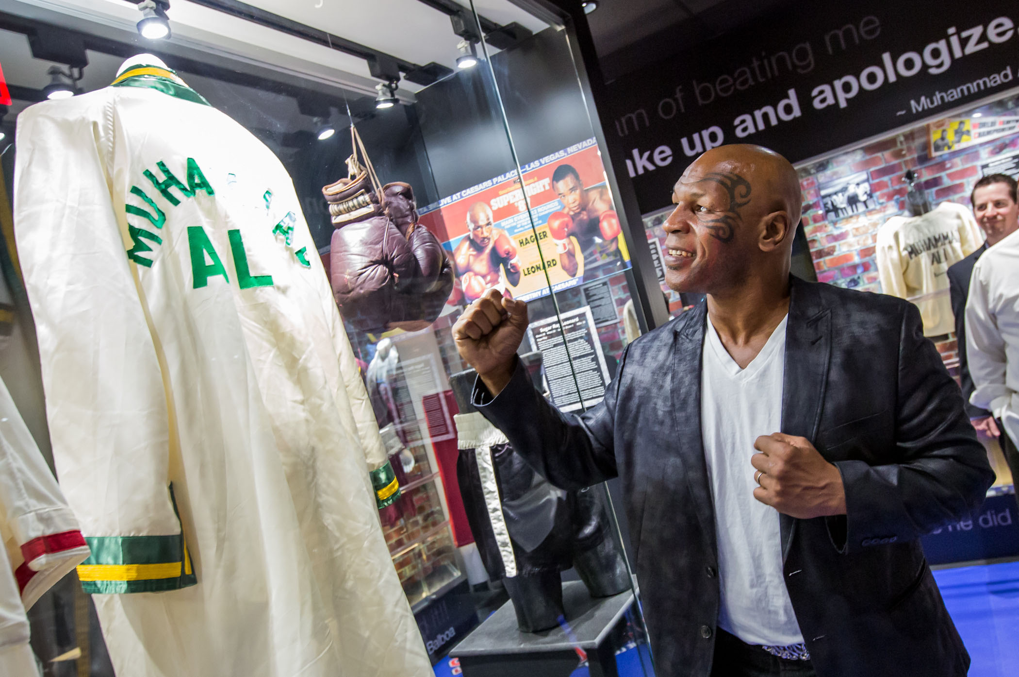 Mike Tyson admiring a Muhammad Ali Robe at Boxing Hall of Fame, Luxor Hotel, Las Vegas, Nevada